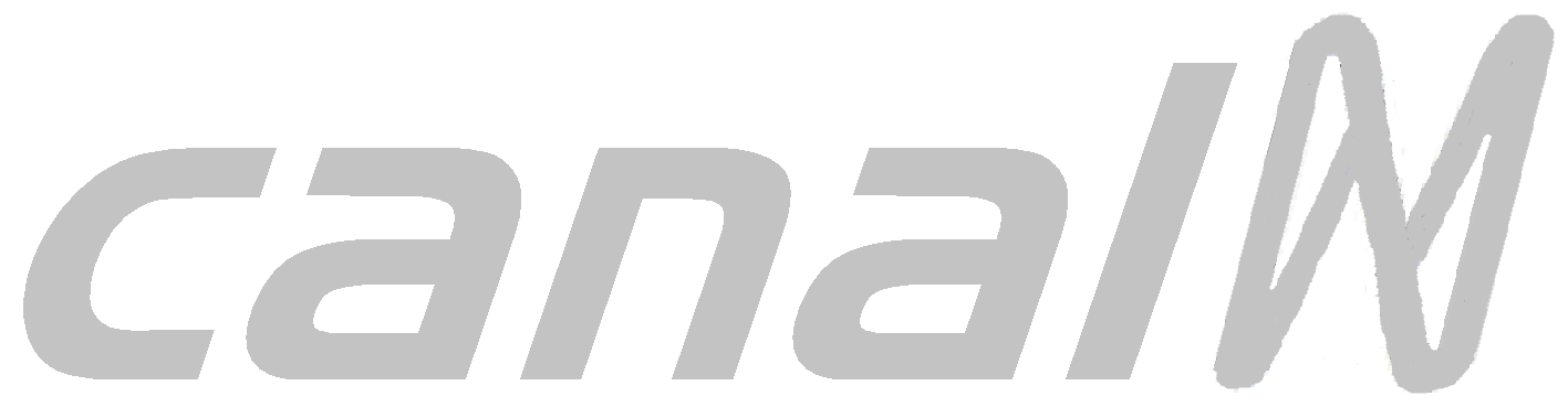 Canal N's logo since 2006.